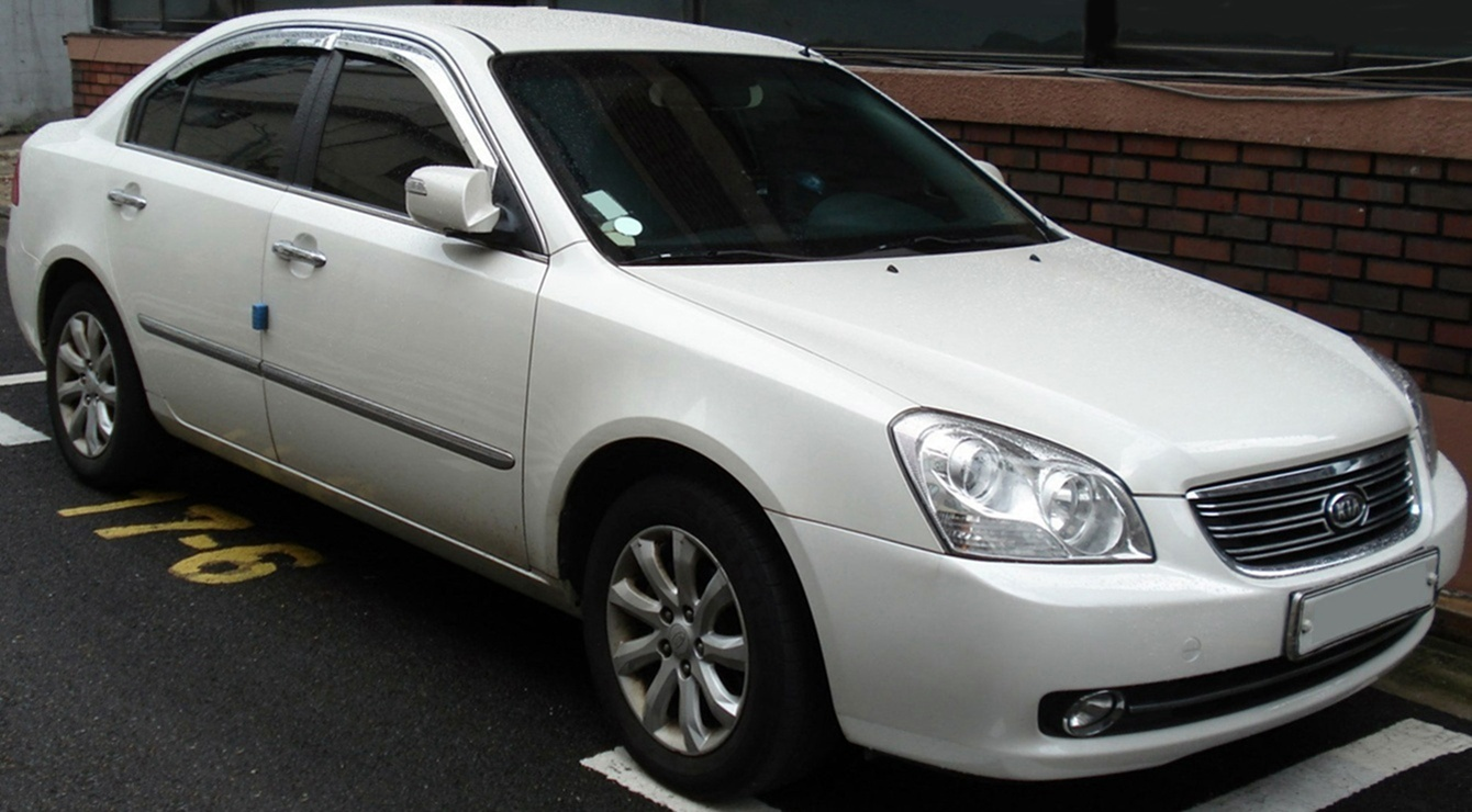 Kia Lotze Advance